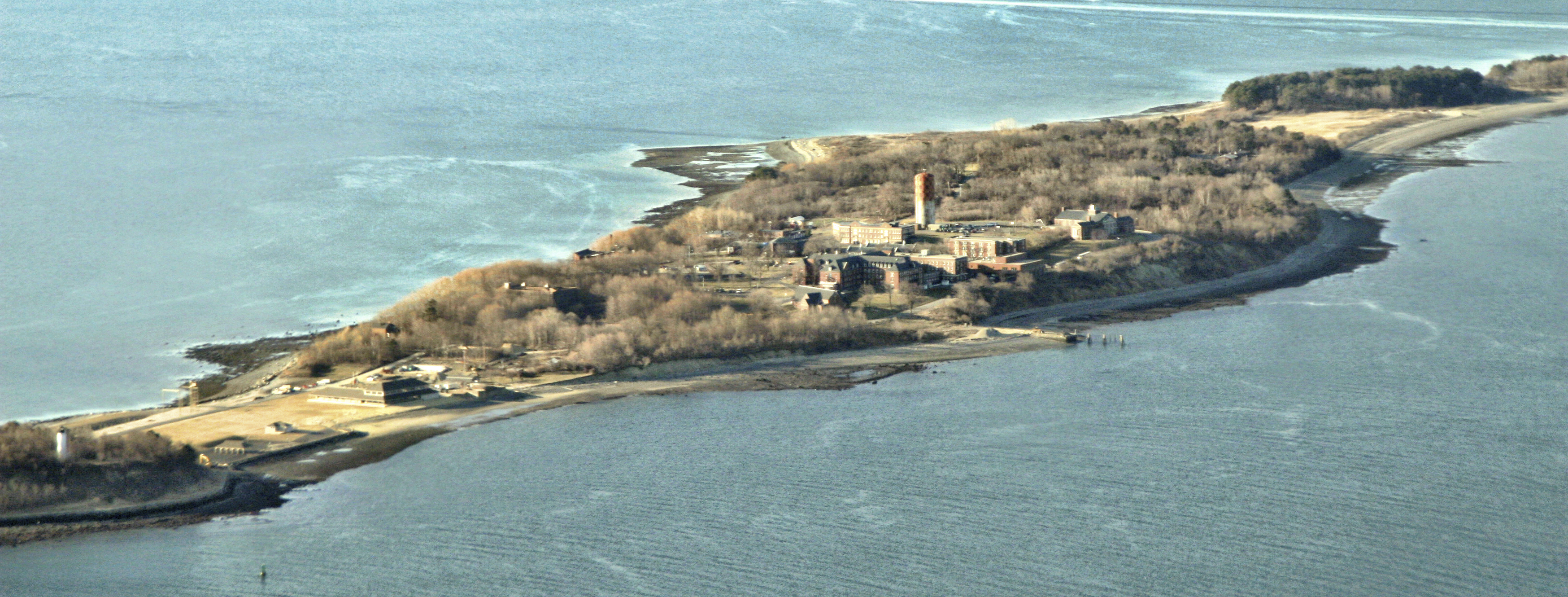 Long Island in Boston Harbor, with Fort Strong at one end (off sight here). From Google Earth: Fort Strong (2) (1870 - 1960's) Long Island Originally named Long Island Military Reservation until 1899. The gun blocks and magazine of Long Island Head Battery (1874 - 1876), a 10-gun battery, still remain. Endicott batteries here are Battery Hitchcock (1899 - 1939), Battery Ward (1899 - 1939), Battery Drum (1899 - 1917), Battery Smyth (1906 - 1921), Battery Stevens (1906 - 1946), Battery Taylor (1906 - 1942), and Battery Basinger (1901 - 1947). A two-gun AA battery was built in the 1920's, expanded to three guns in 1935. A mine casemate was built in 1906, which commanded the northern channel (President Roads) minefields until replaced by Fort Dawes in 1944. Became a NIKE missile launch site in the 1950's, with the control site in nearby Squantum. The site is now owned by the Long Island Hospital. Camp Wightman, a Civil War training camp, was located on the island in 1861.